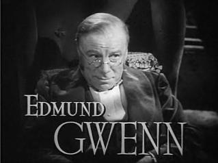 Cropped screenshot of Edmund Gwenn from the trailer for the film Pride and Prejudice